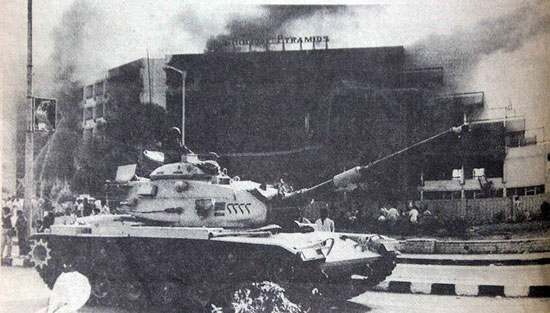 Tank in Cairo in 1986 in the Central Security events